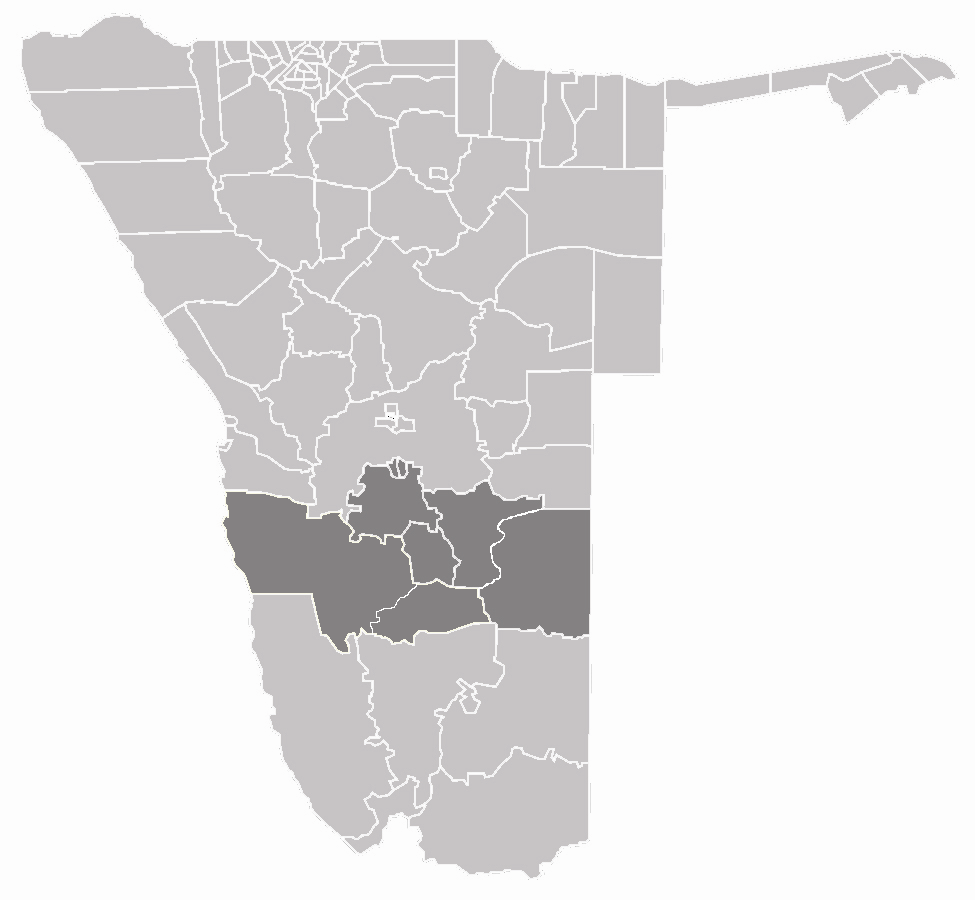 map of the Hardap region in Namibia